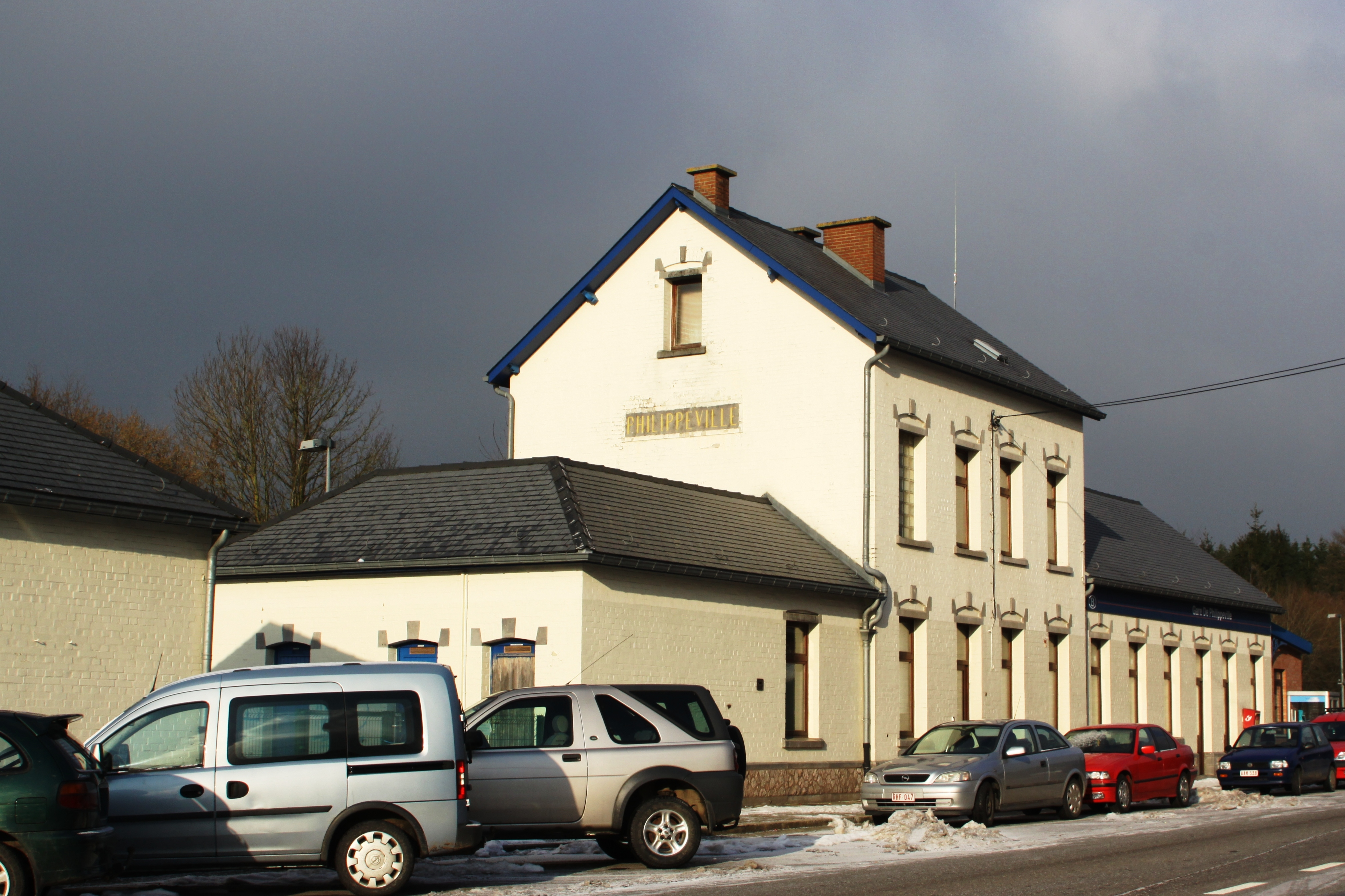 Train station Philippeville